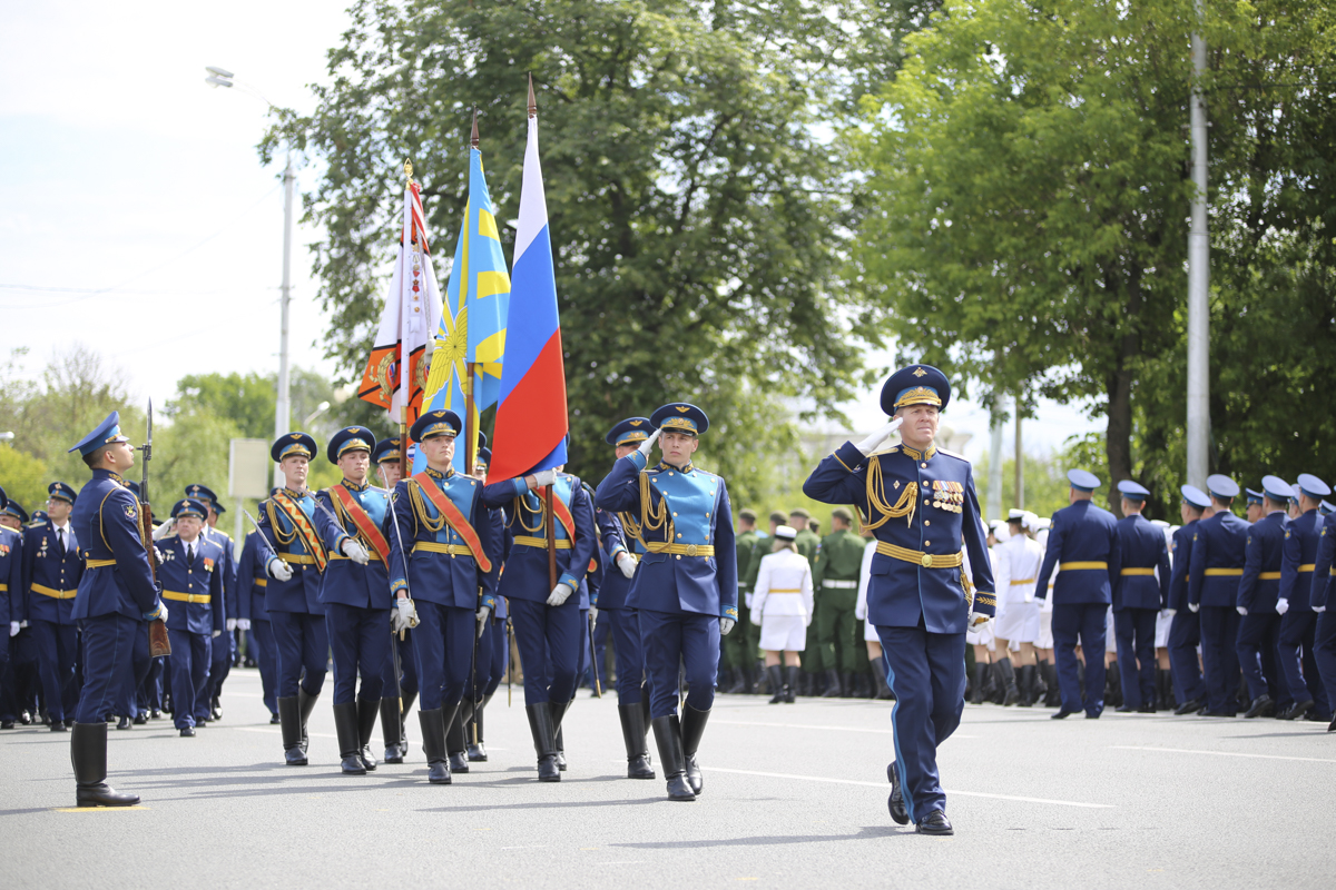 Solemn ceremony of the release in the Air and Space Defense Military Academy and Tver Suvorov Military School.